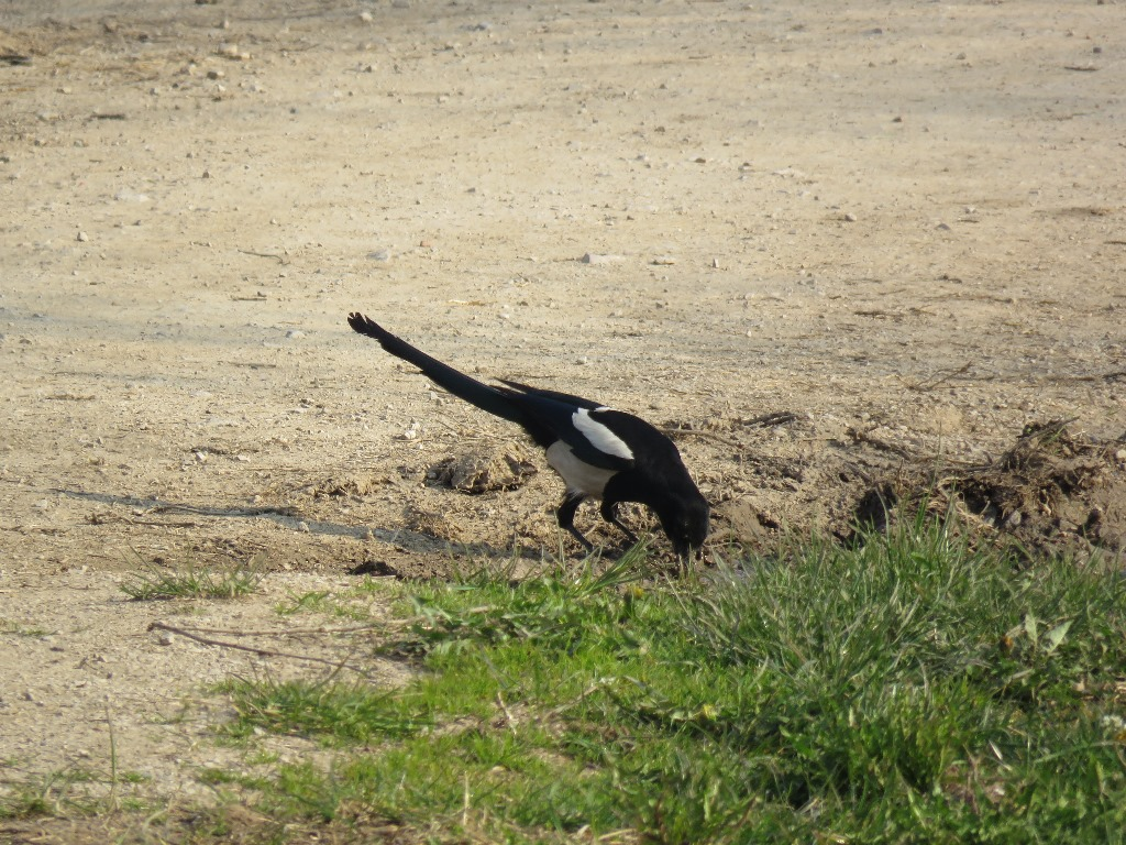 Common magpie in the city park in Niš, Serbia